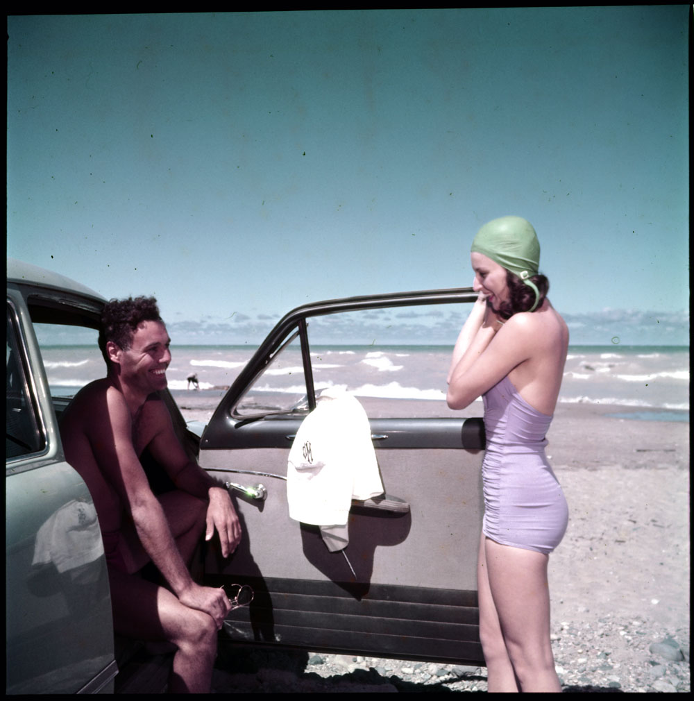 Getting ready for a dip in the Lake Huron surf at Grand Bend on the Blue Water Highway, July 1951